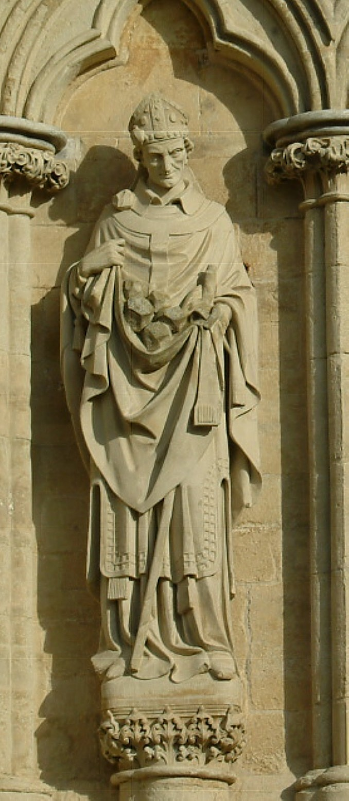 A statue of St. Alphege on the West Front of Salisbury Cathedral, UK.